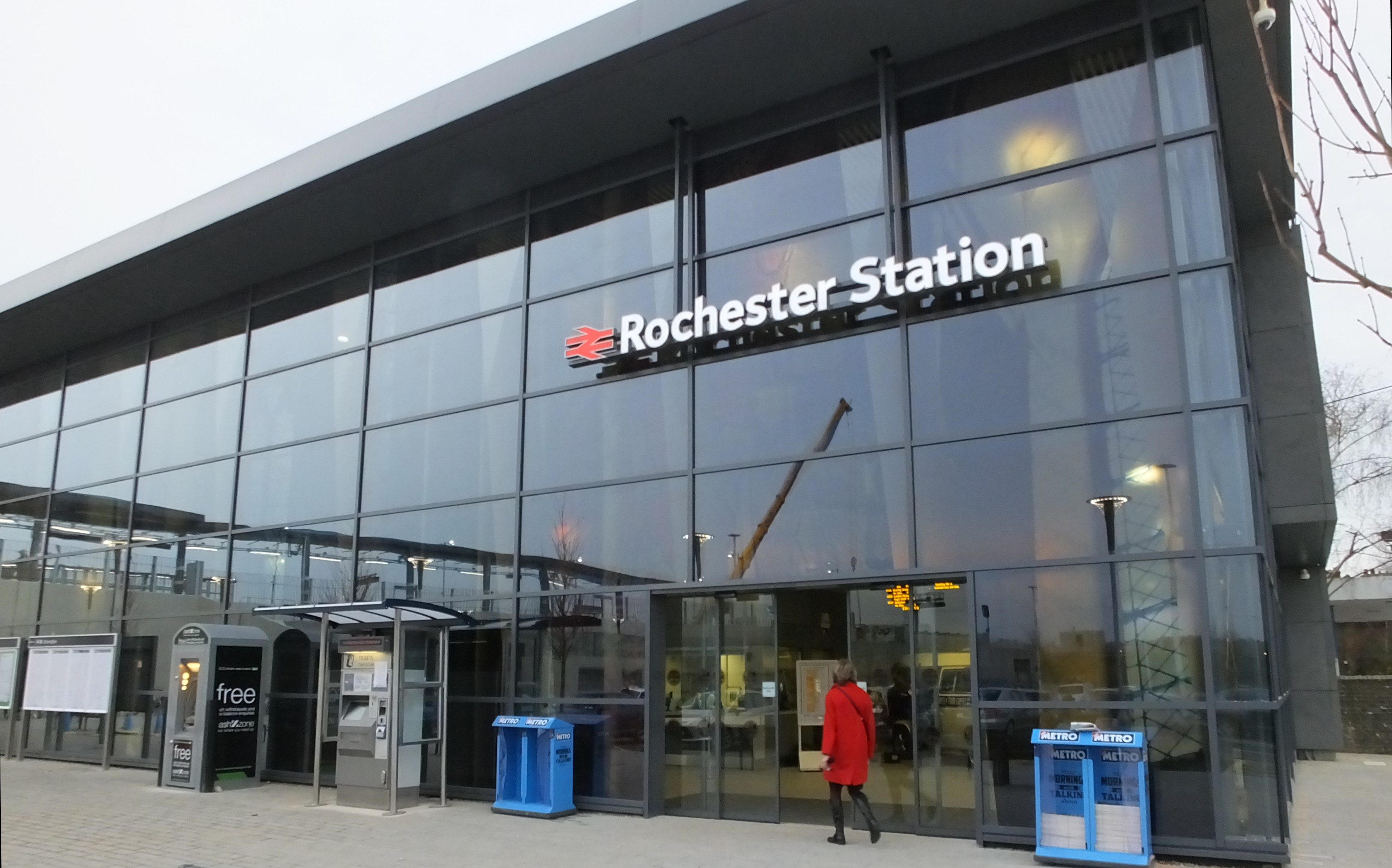 On 12 December 2015, the Rochester railway station was closed and replaced with this new station, almost exactly on the site of the former Rochester Common railway station.